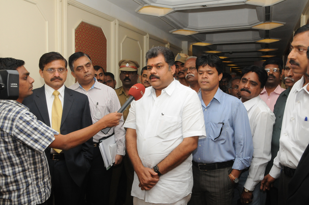 shaik